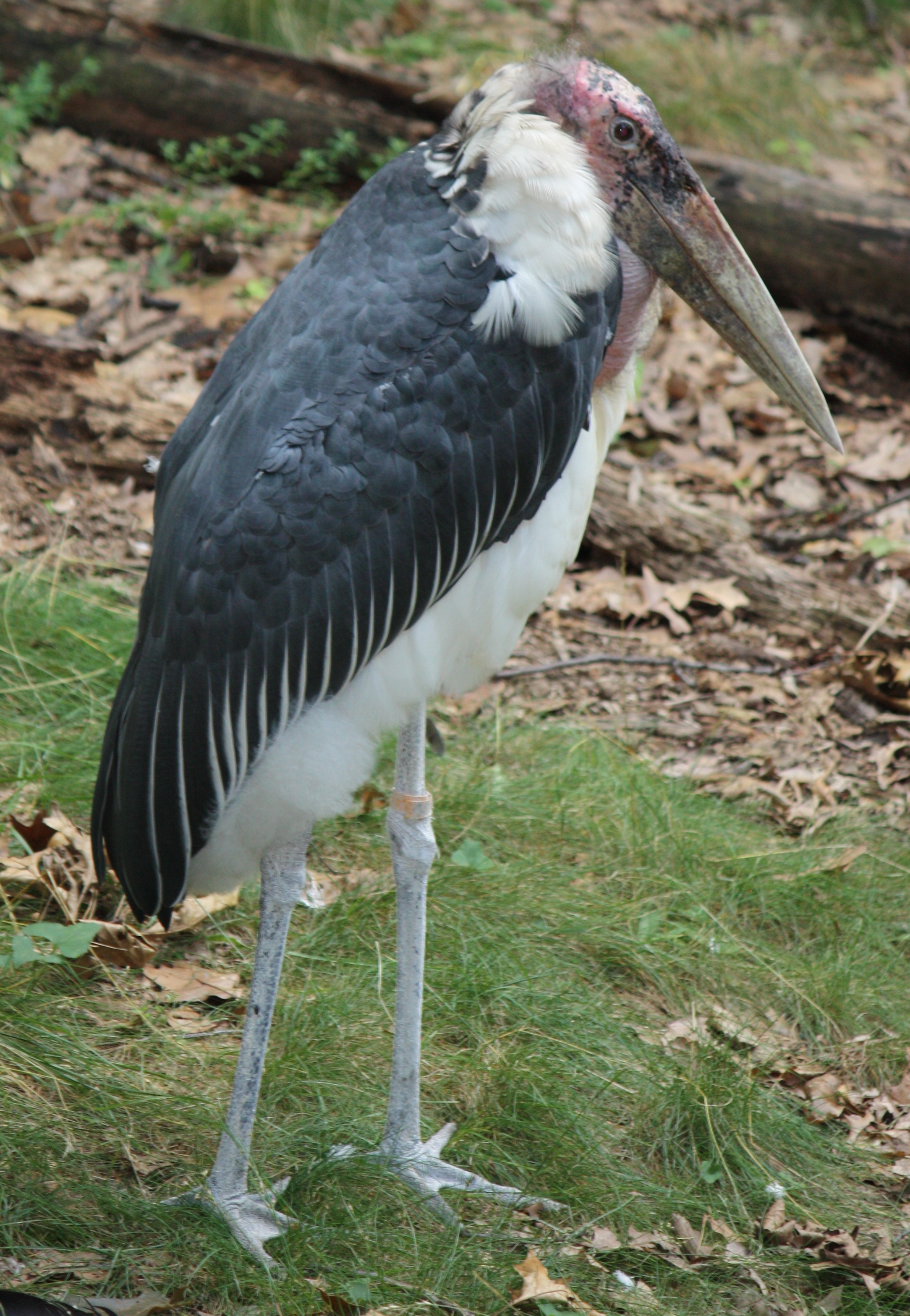 Marabou Stork Leptoptilos crumeniferus at Binder Park Zoo in Battle Creek, Michigan